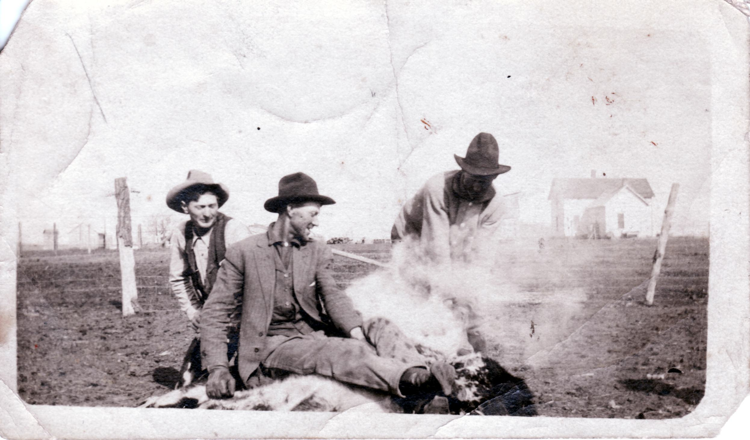 Cowboys branding a colt on Anchor-D Ranch at Guymon, Oklahoma